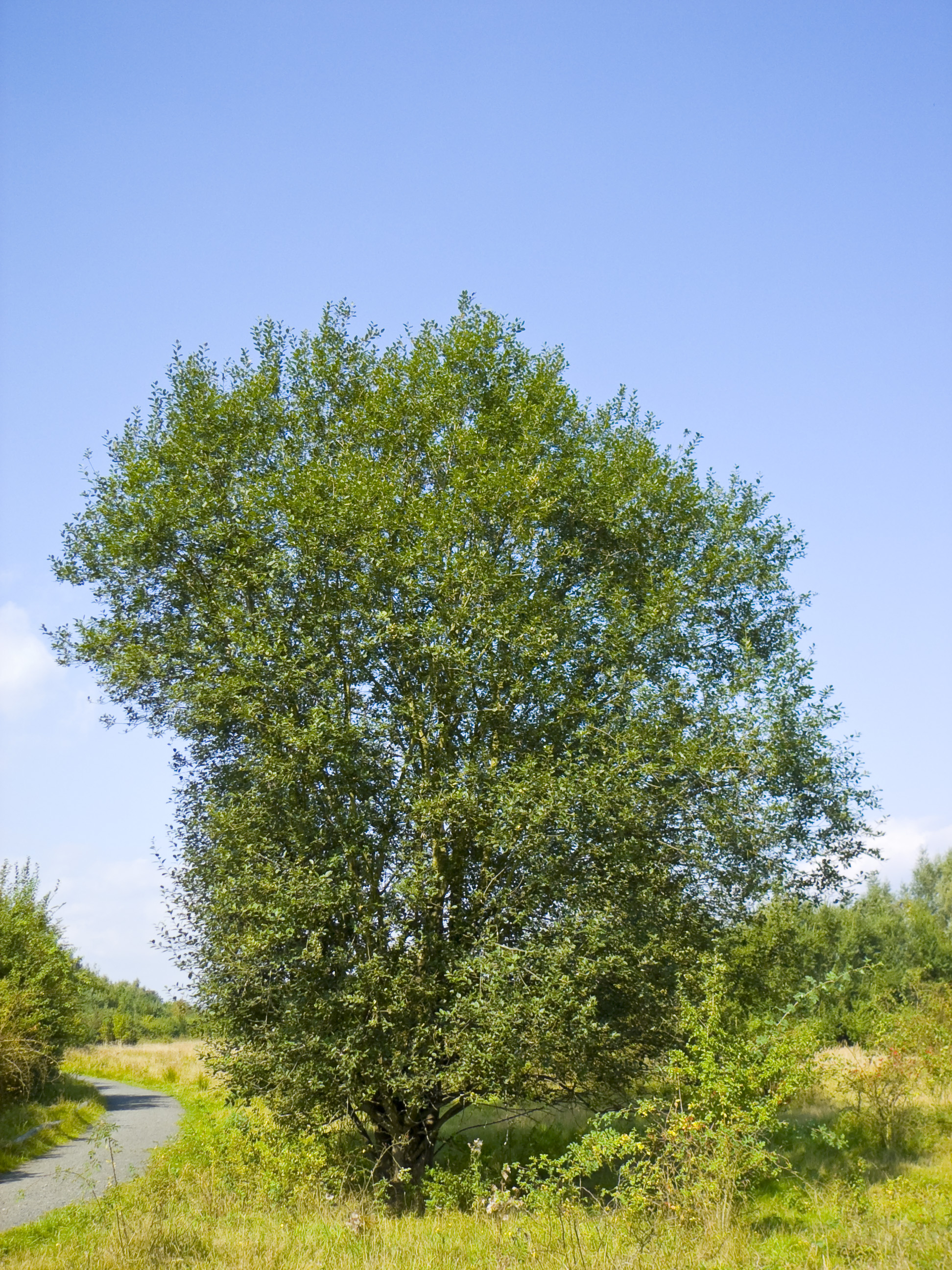 Goat Willow (Salix capraea) at the Nature reserve Erlensee near Kirchhain, Hesse, Germany